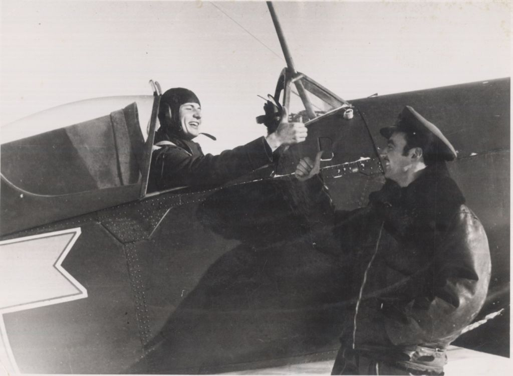 Before the mission